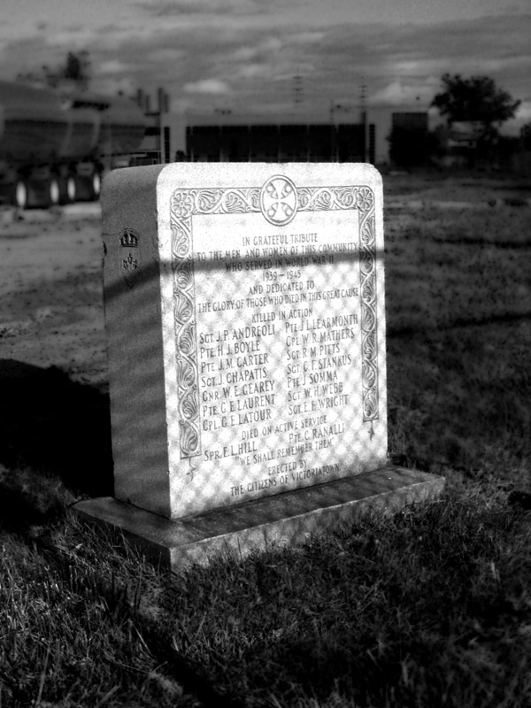 The only remaining trace of Victoriatown, Montreal - near bridge st/mill st: a monument erected in the memory of those of that community who died at war 1939 - 1945. sadly, this monument is behind a fence, neglected.